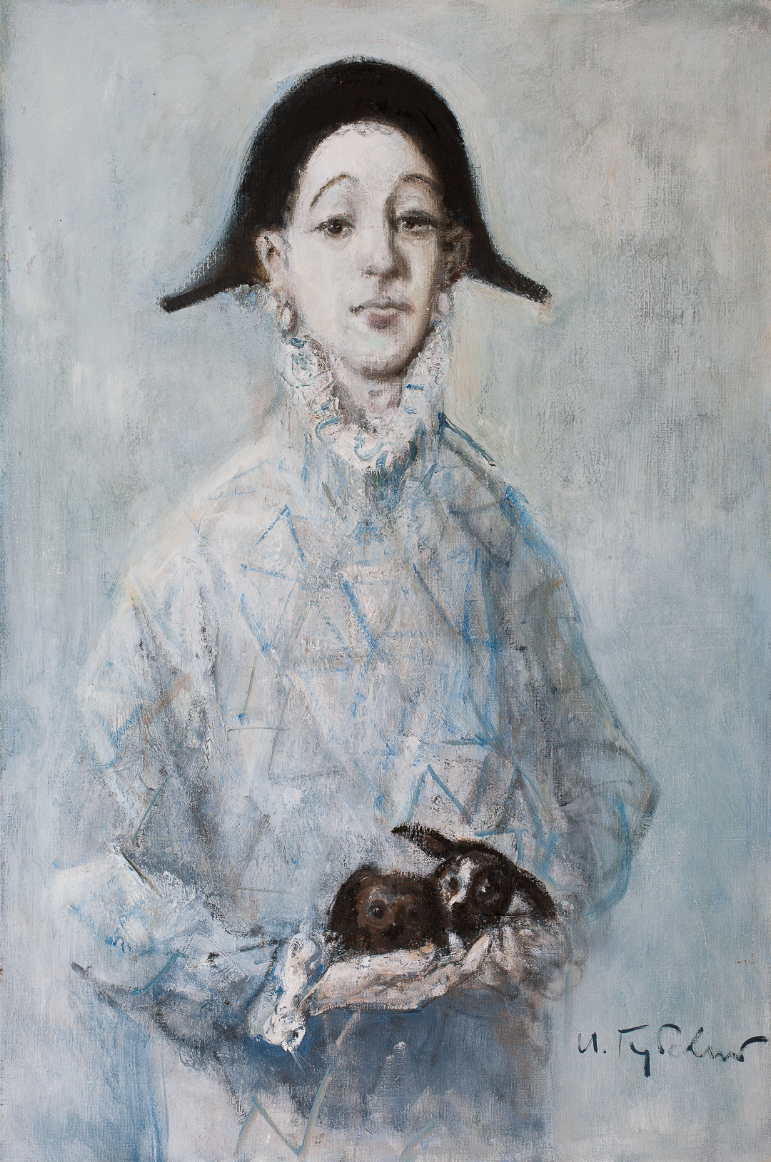 Igor Gubskiy artwork - Harlequin, 2011. Oil on canvas.